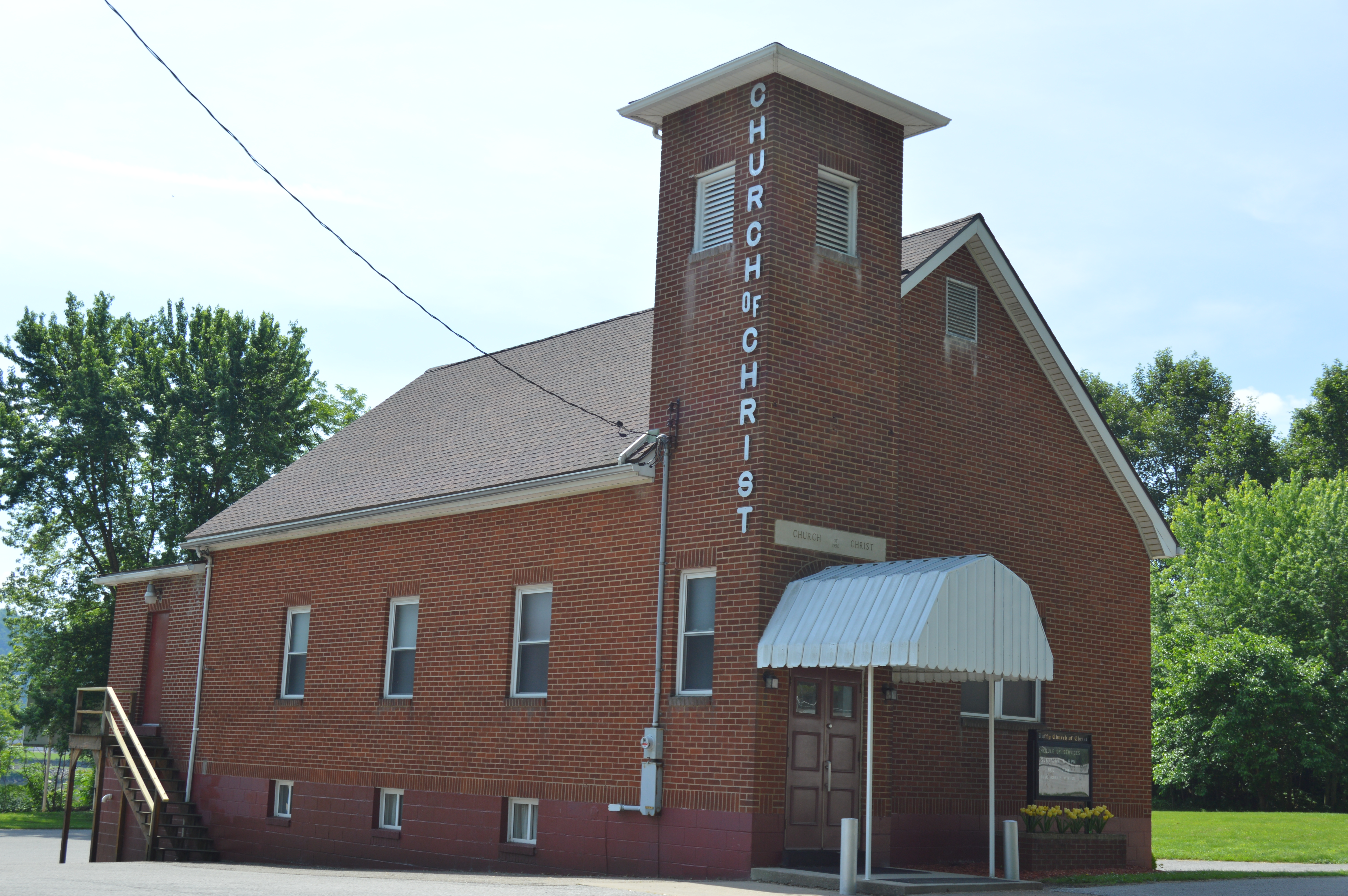 Northern side and front of the Duffy Church of Christ, located along State Route 7 in Duffy, Ohio, United States. It was built in 1950.